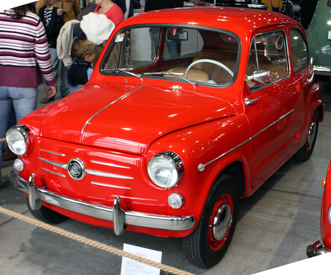 Red zastava 750 durign the Oldtimer Show 2009.